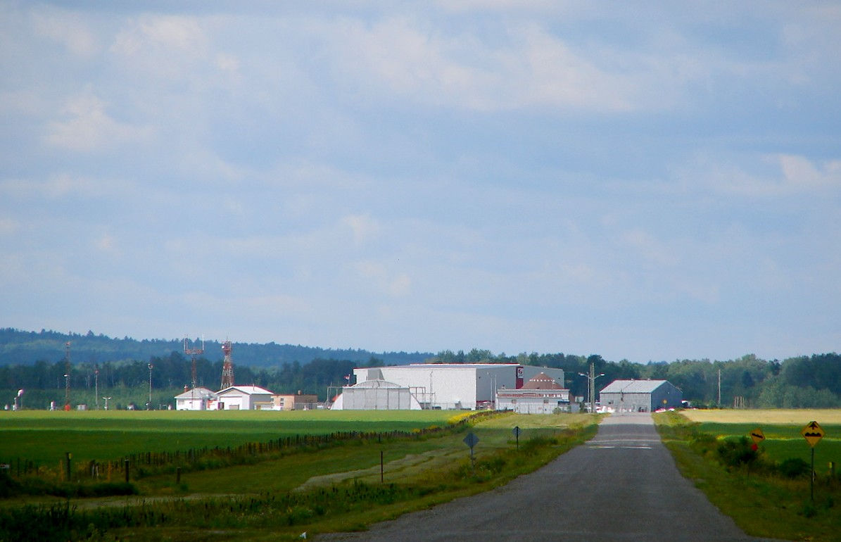 Earlton/Timiskaming Regional Airport, Armstrong Township, Ontario, Canada